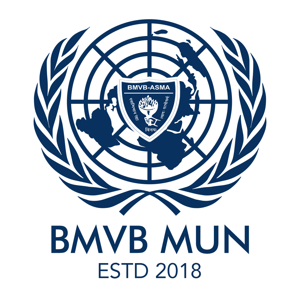 This is the logo for BMVB Model United Nations